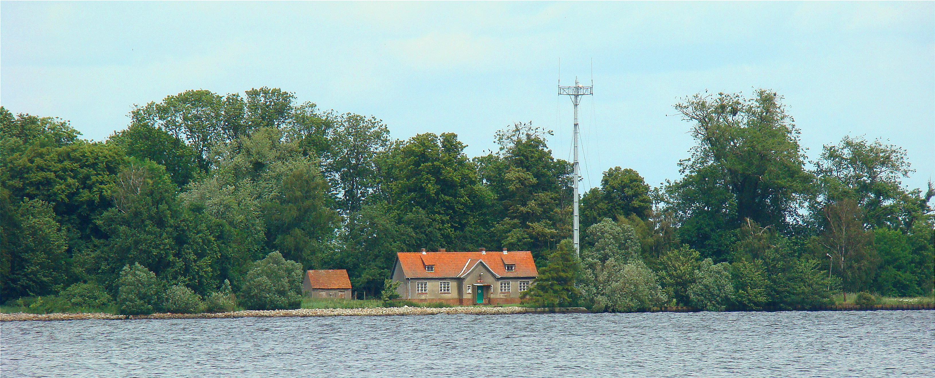 Chelminek (Island in Szczecin Lagoon, Poland)